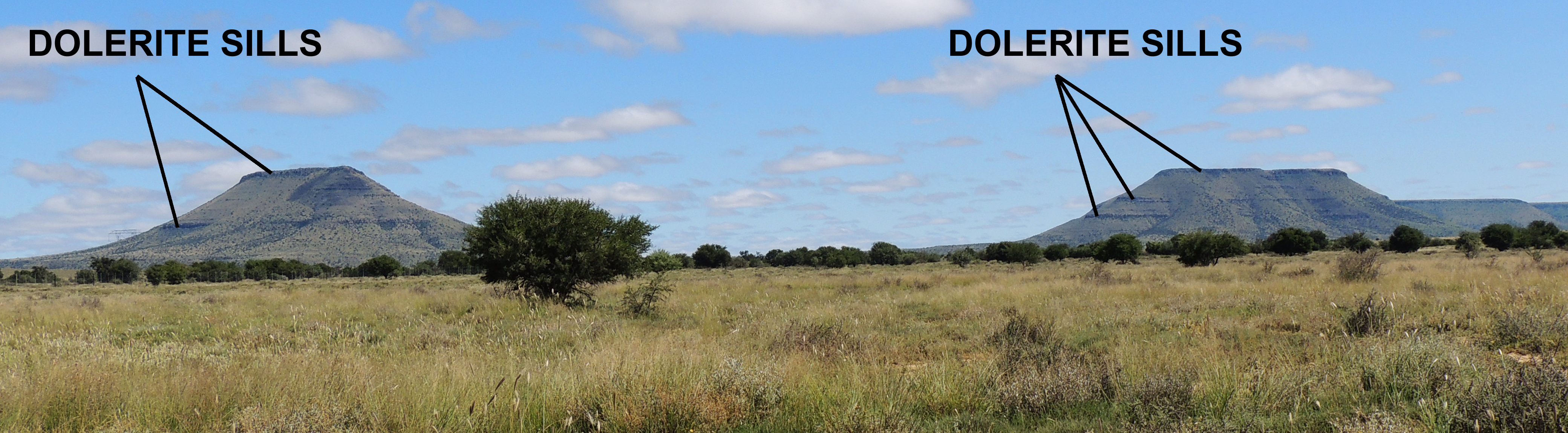 Typical flat topped Karoo Koppies in the Cradock region of the Great Karoo. The presence of dolerite sills which are more erosion resistant than the softer Beaufort shales which they have penetrated, produce the flat tops and stepped sides of these hills.